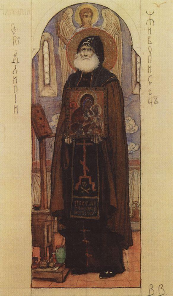 Saint Alipiy the Iconographer